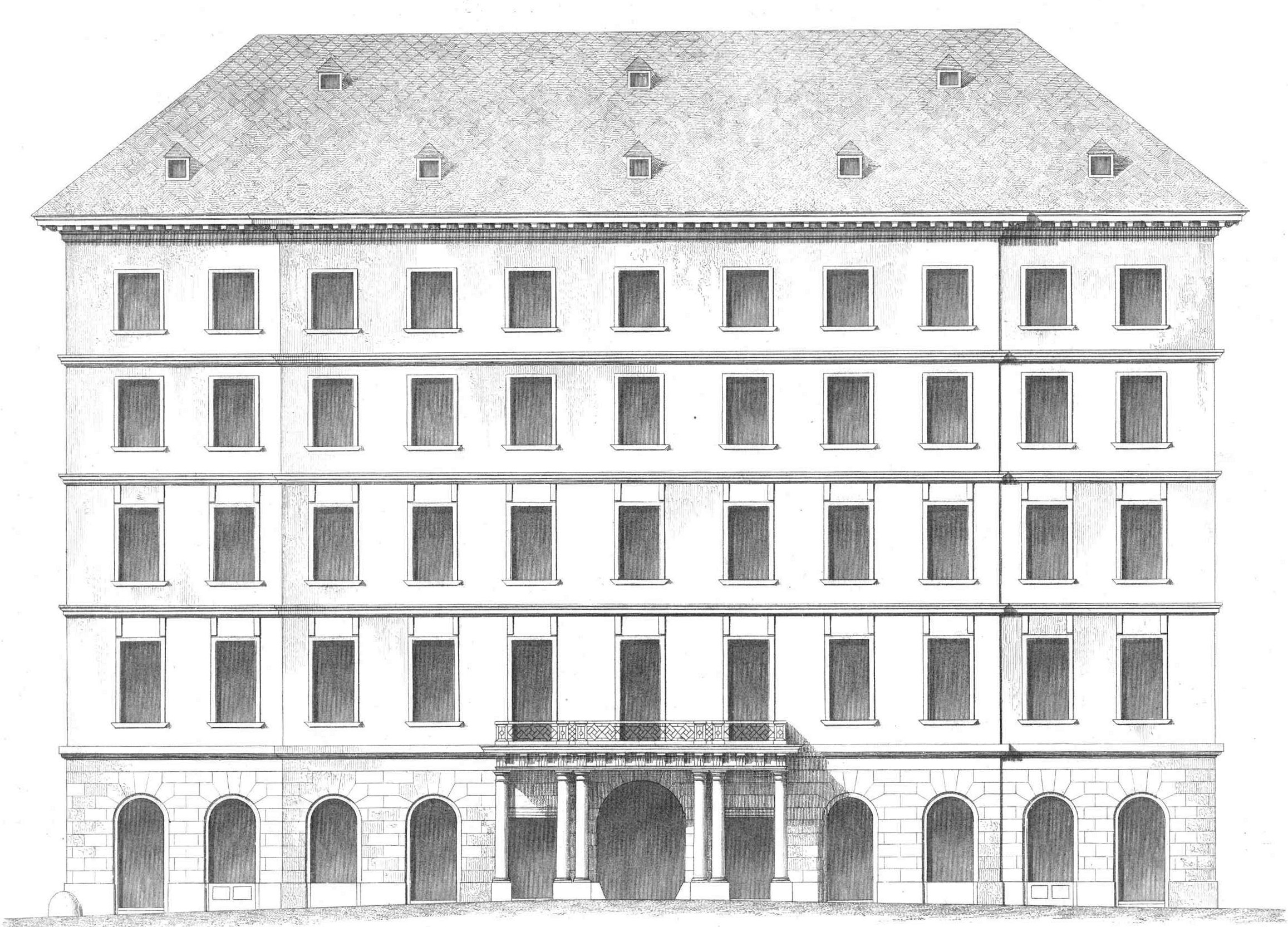 Palais Sina, Hoher Markt 8, Vienna, before the rebuilding (1859/60)